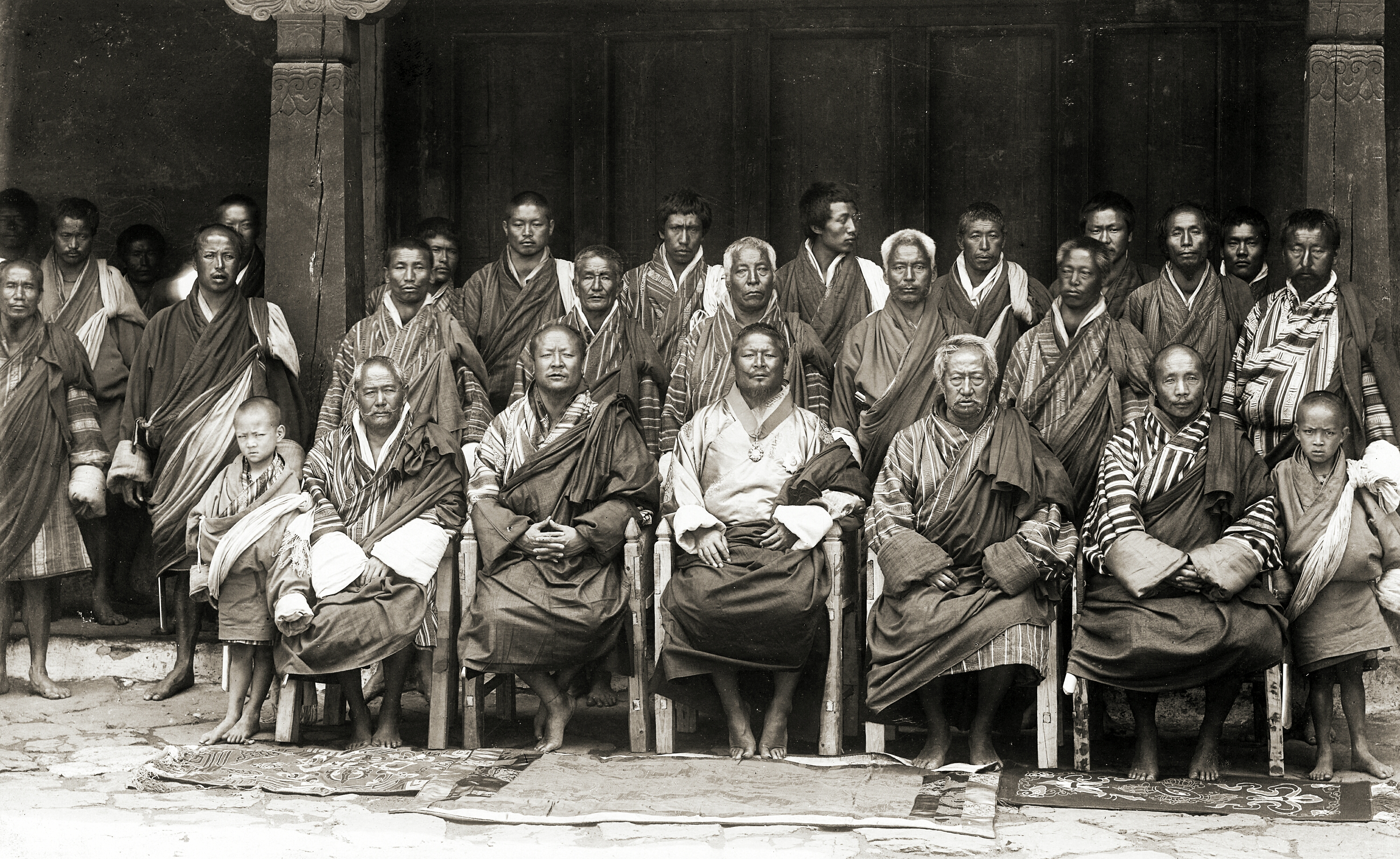 King Ugyen Wangchuck and his councillors — in Punakha, the old capital of Bhutan, in 1905. Ugyen Wangchuck was the first King of Bhutan, from 1907 to 1926. Front Row: Son of Thimbu Jongpen, Punakha Jongpen, Thimbu Jongpen, Tongsa Penlop, Zung Donyer [dronyer], Deb Zimpon, and elder son of Thimbu Jongpen.